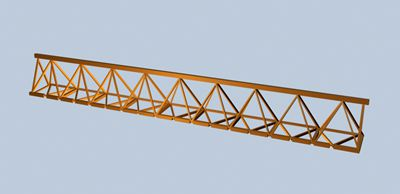 truss girder